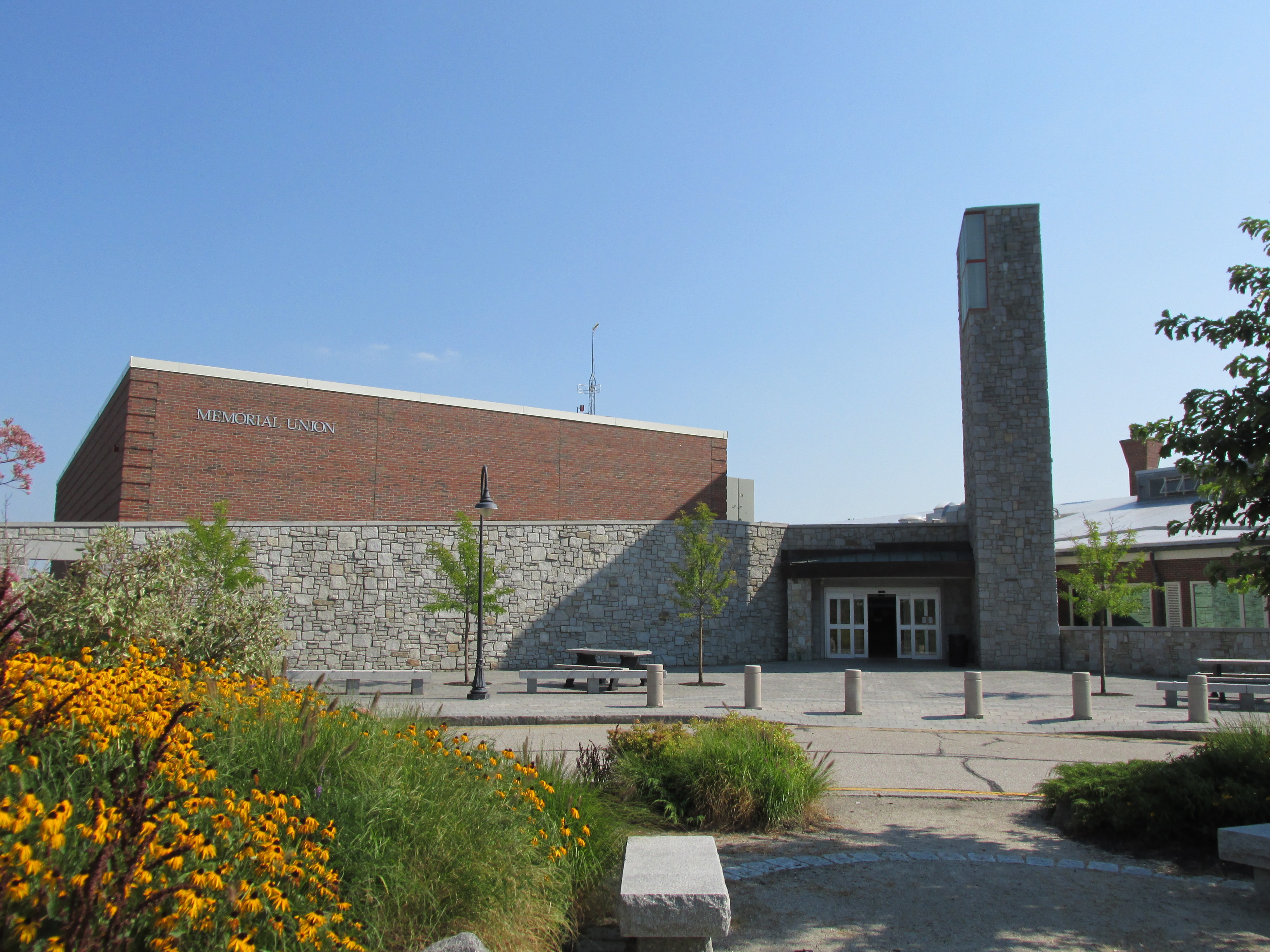 Memorial Union Building, UNH, Durham New Hampshire